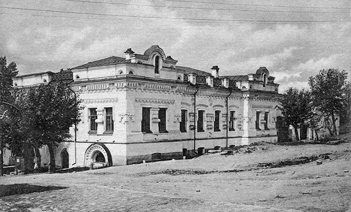 Ipatiev House (Revolution Museum)